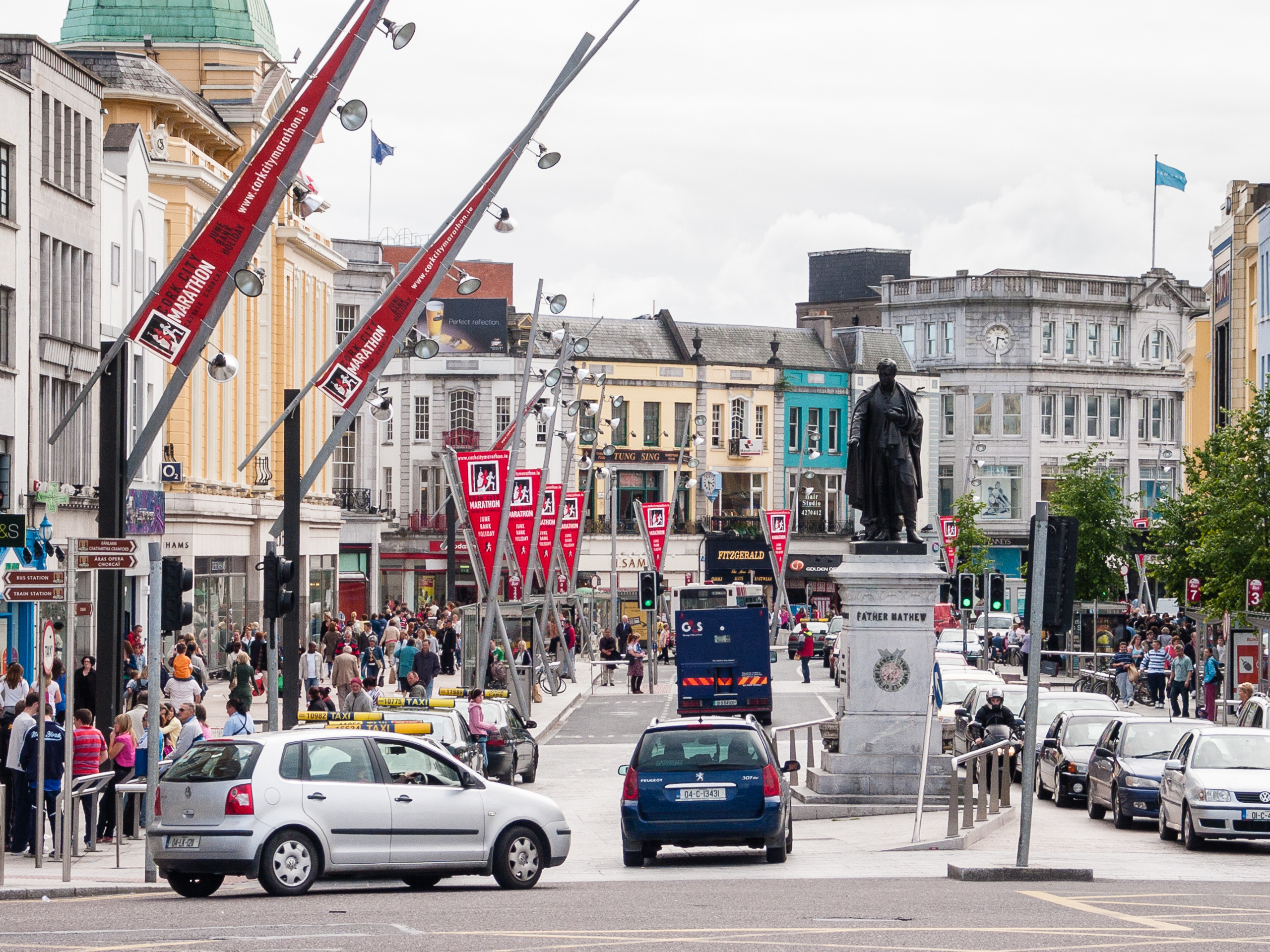 St. Patrick's Street and Father Methew Memorial